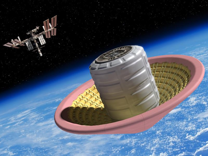 Proposed variant of Cygnus that would allow it to return cargo. The image shown is after the service module has been jettisoned and the heatshield expanded.